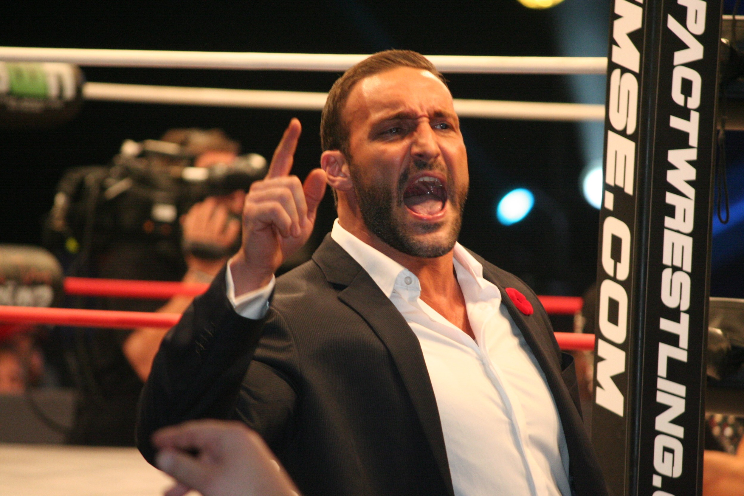 Chris Adonis at ringside at Bound for Glory in November 2017.